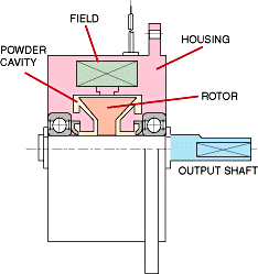 Electromagnetic Particle Brake